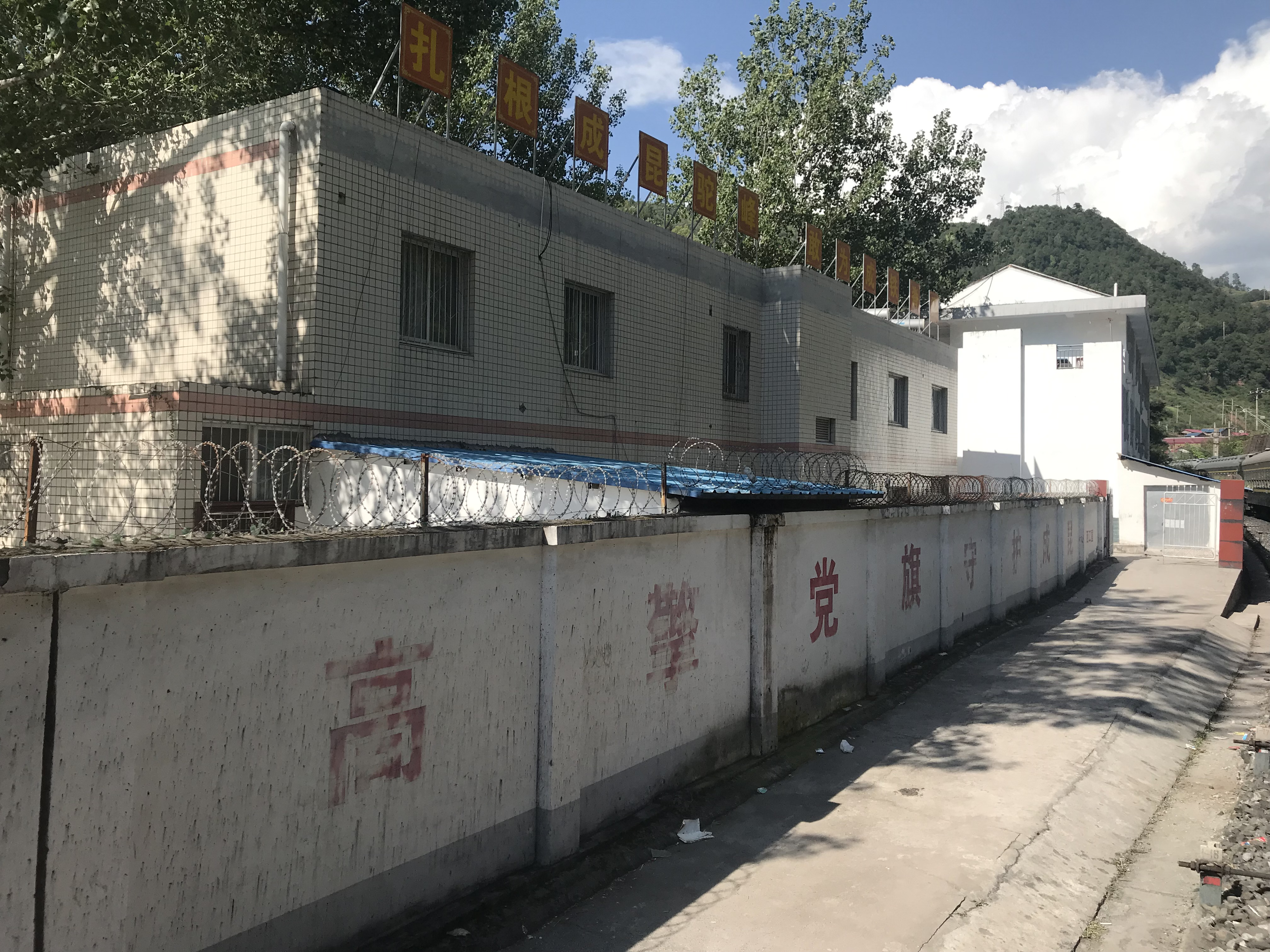 201908 Maintenance Team at Shamalada Station